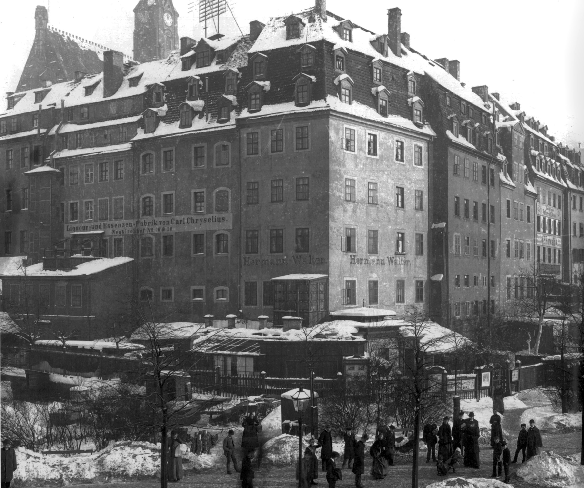 Leipzig, Neukirchhof 8 (now Matthäikirchhof, 1909 demolished), as seen from Töpferplatz, with protruding studio Herman Walters